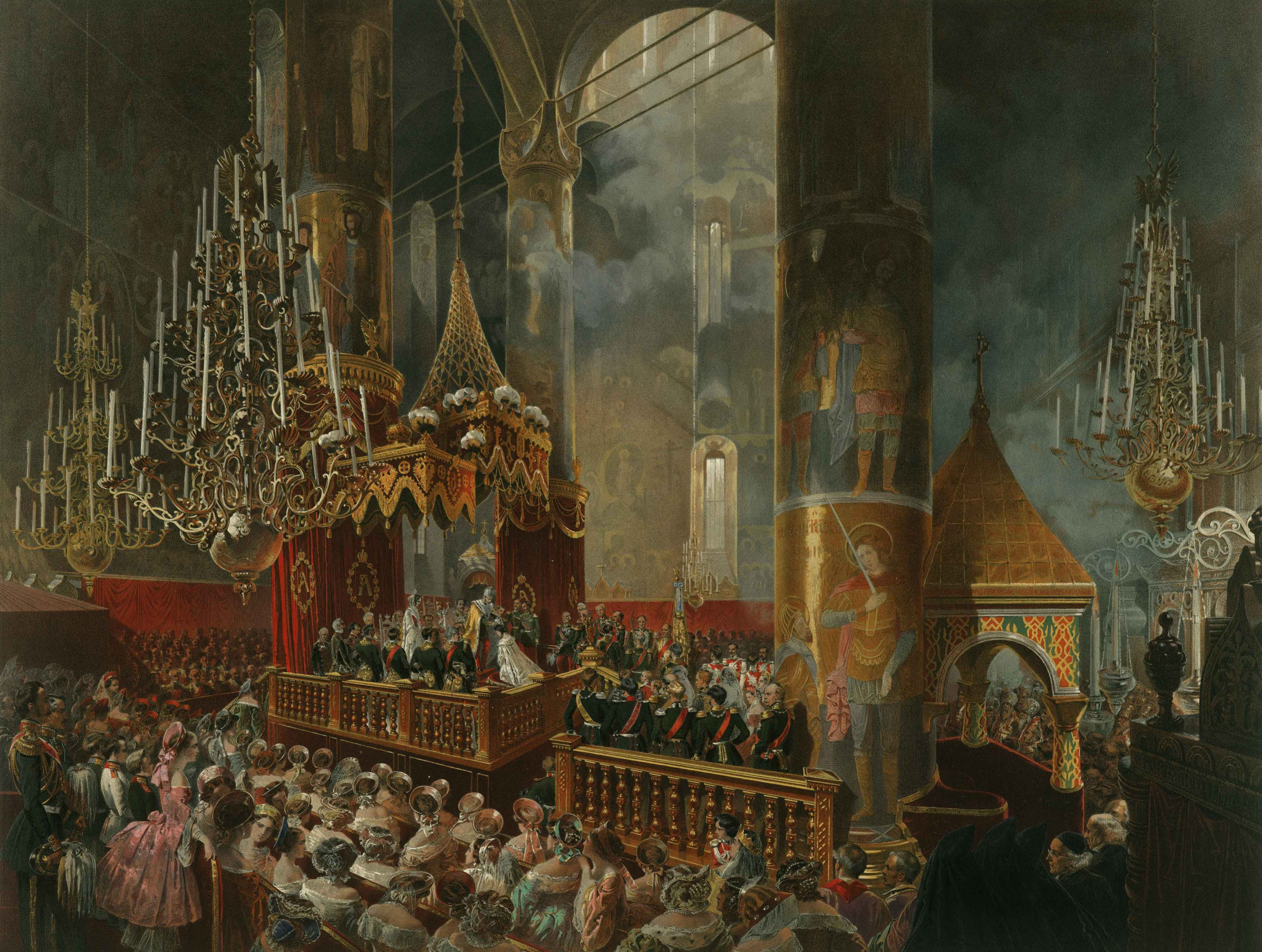 Crowning of the Empress